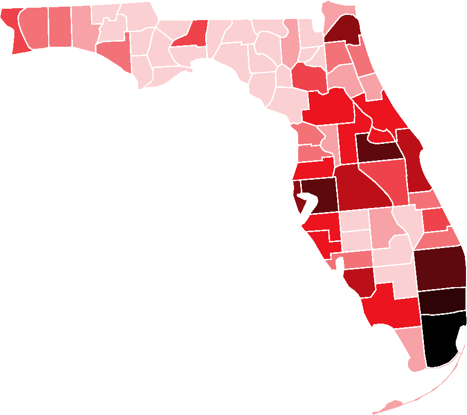 Map of Florida counties, shaded to illustrate population (2012) Legend (Population): 0-49,999 50,000-99,999 100,000-199,999 200,000-299,999 300,000-499,999 500,000-749,999 750,000-999,999 1,000,000-1,499,999 1,500,000-1,999,999 2,000,000+